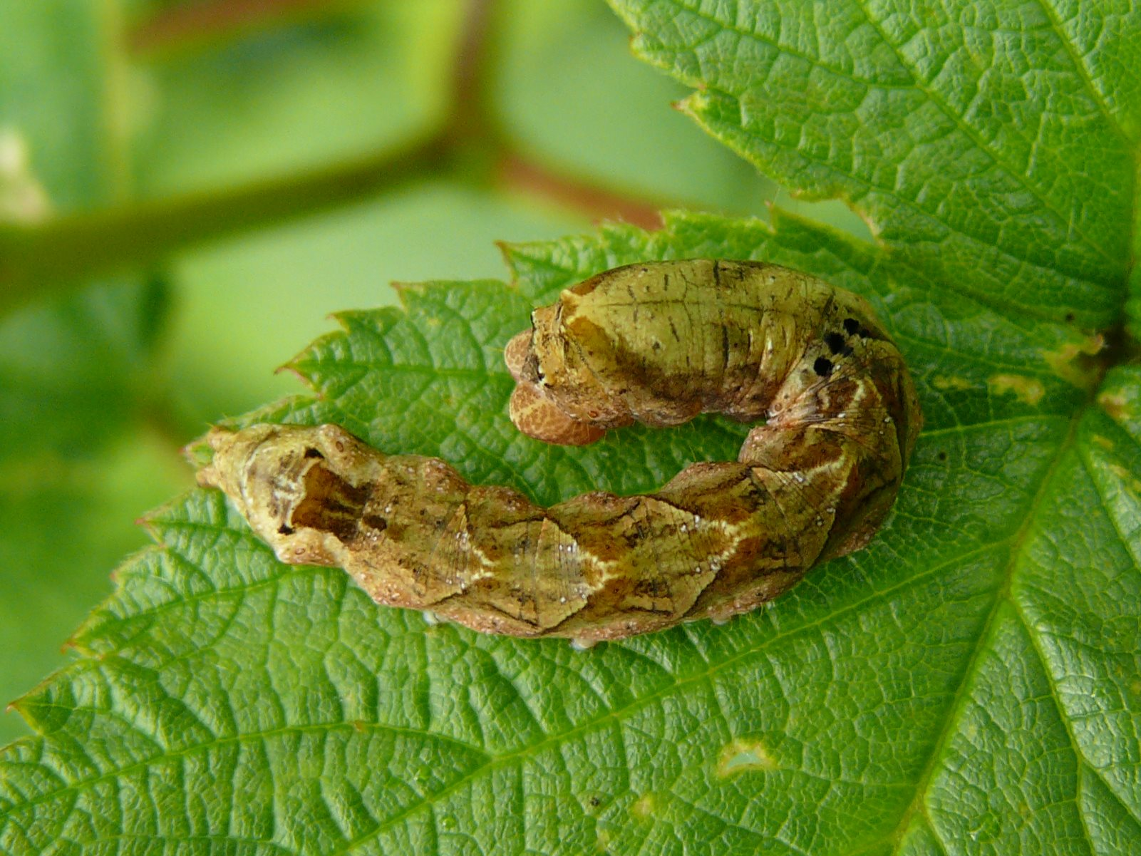 Caterpillar of Peach Blossom (Thyatira batis)